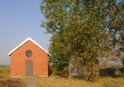 Sochaczew - the ohel (gravesite) of Rabbi Avrohom Bornstein (the "Avnei Nezer") and his son, Rabbi Shmuel Bornstein (the "Shem Mishmuel"), First and Second Sochatchover Rebbes, in Sochaczew (Sochatchov) Sochaczew - die Friedhofskapelle von Rabbi Bornstein in den judische Friedhof